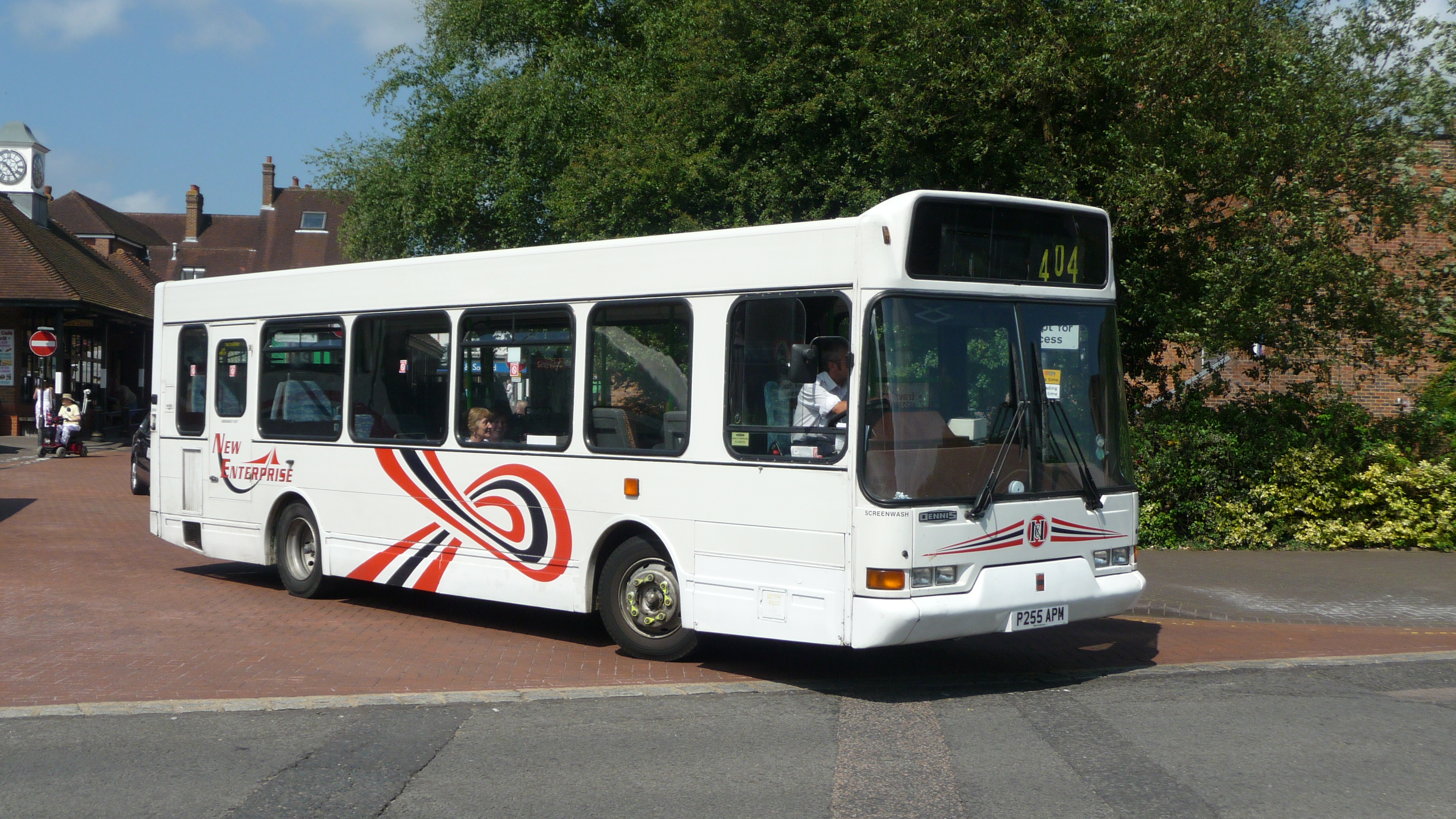 New Enterprise Coaches 3055 (P255 APM), a Dennis Dart SLF/East Lancs Spryte, leaving Sevenoaks bus station, Kent, on route 404. From April 2010, route 404 was taken over by Nu-Venture, following Kent County Council contract changes.